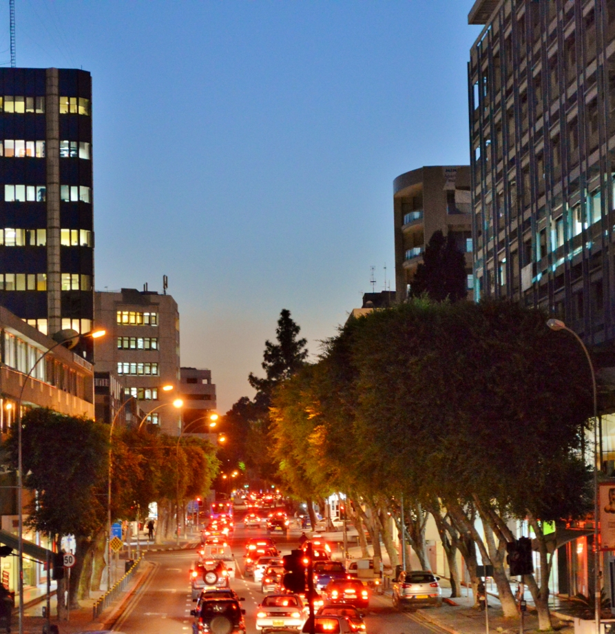 Stasinou Avenue by night Nicosia Republic of Cyprus